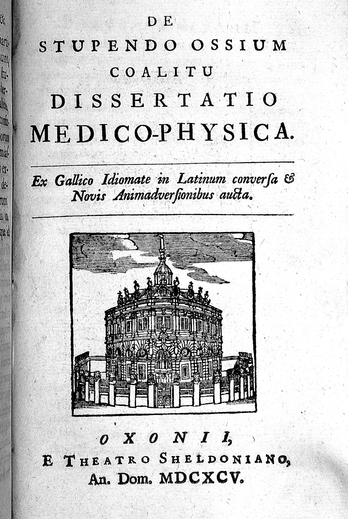 Title page Rare Books Keywords: Bernard Connor